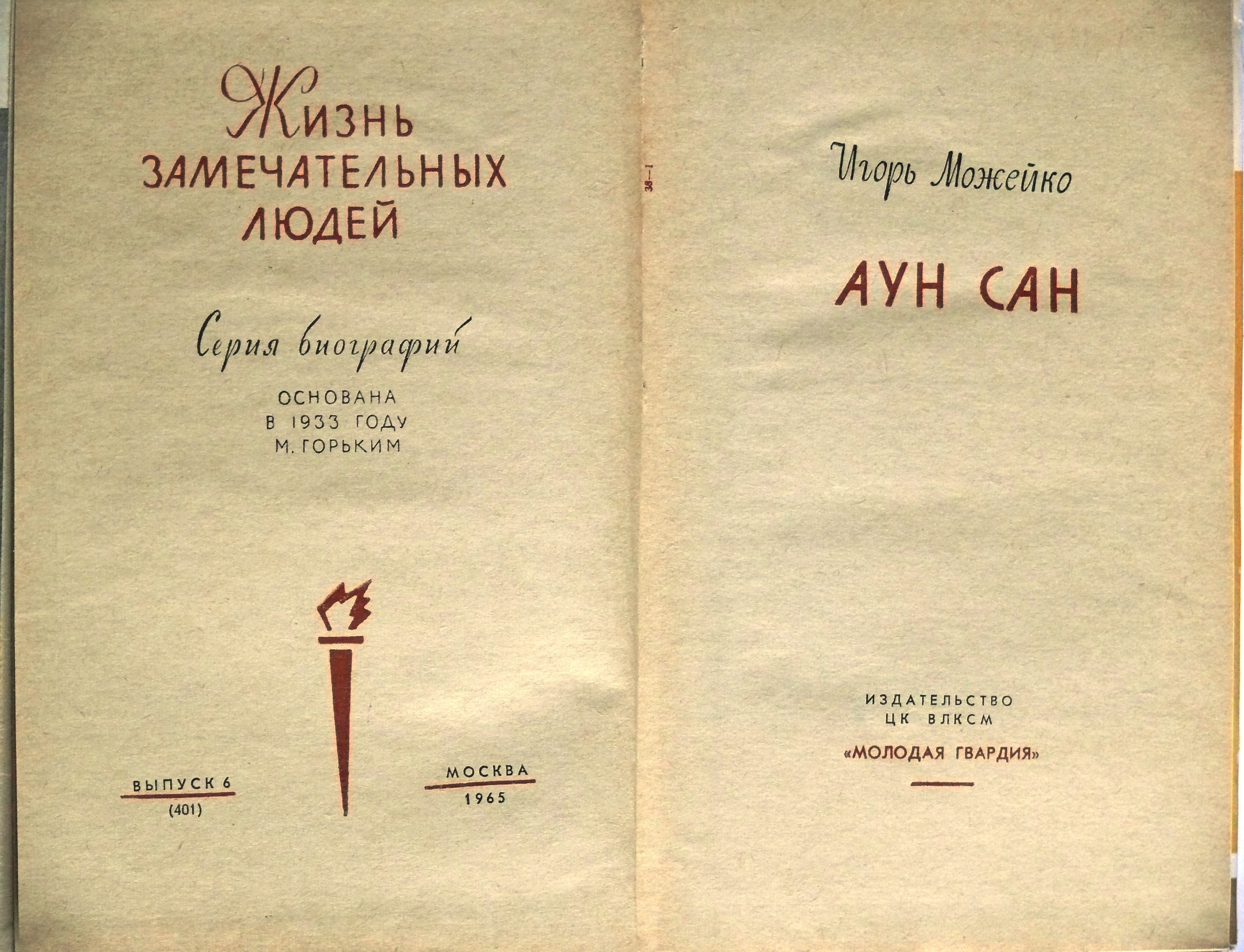 Igor Vsevolodovich Mozheyko (1934-2003). Book "Aun(g) Sun". 1965. Title page